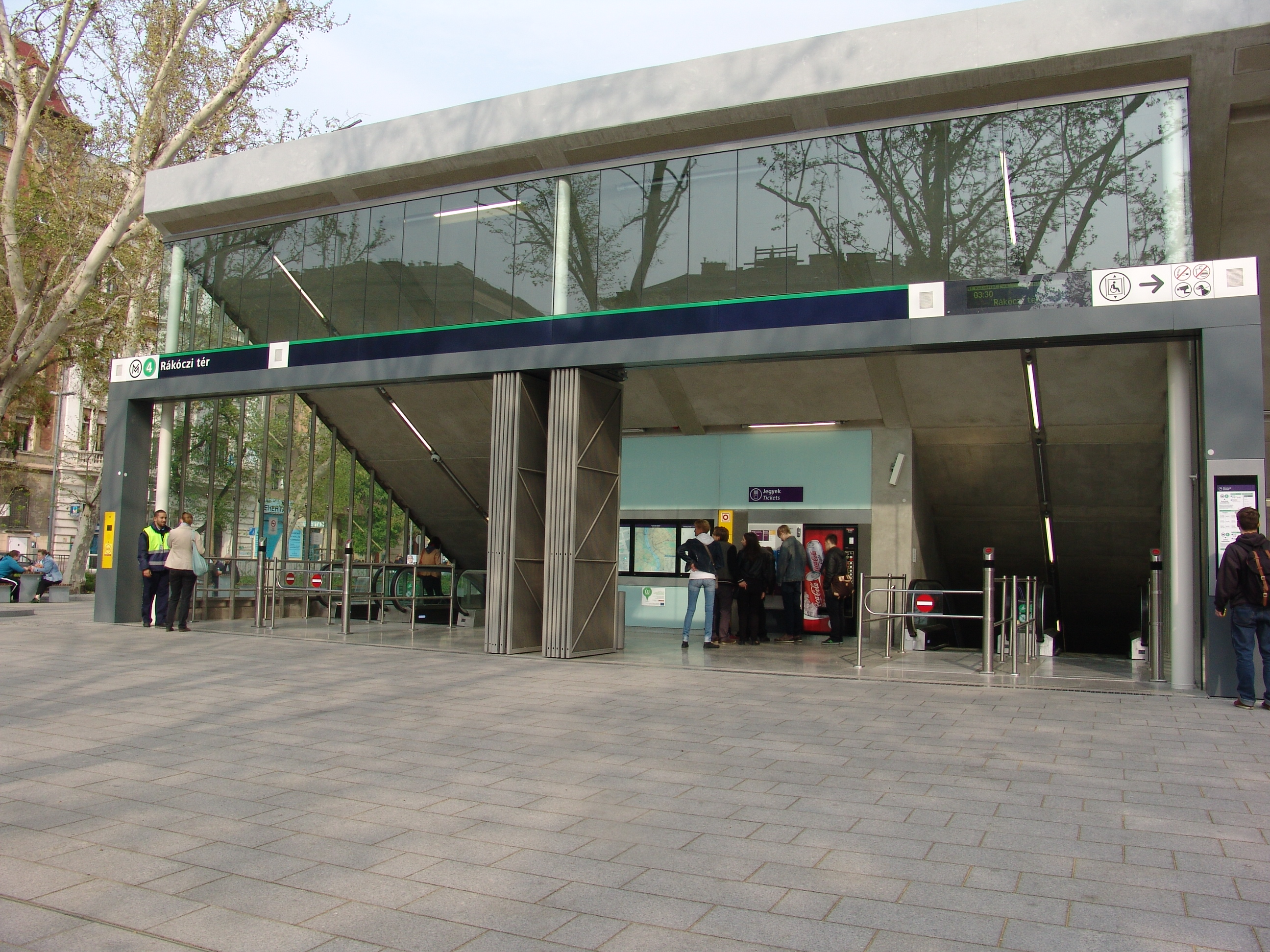 Line 4 (Budapest Metro), Rákóczi tér station